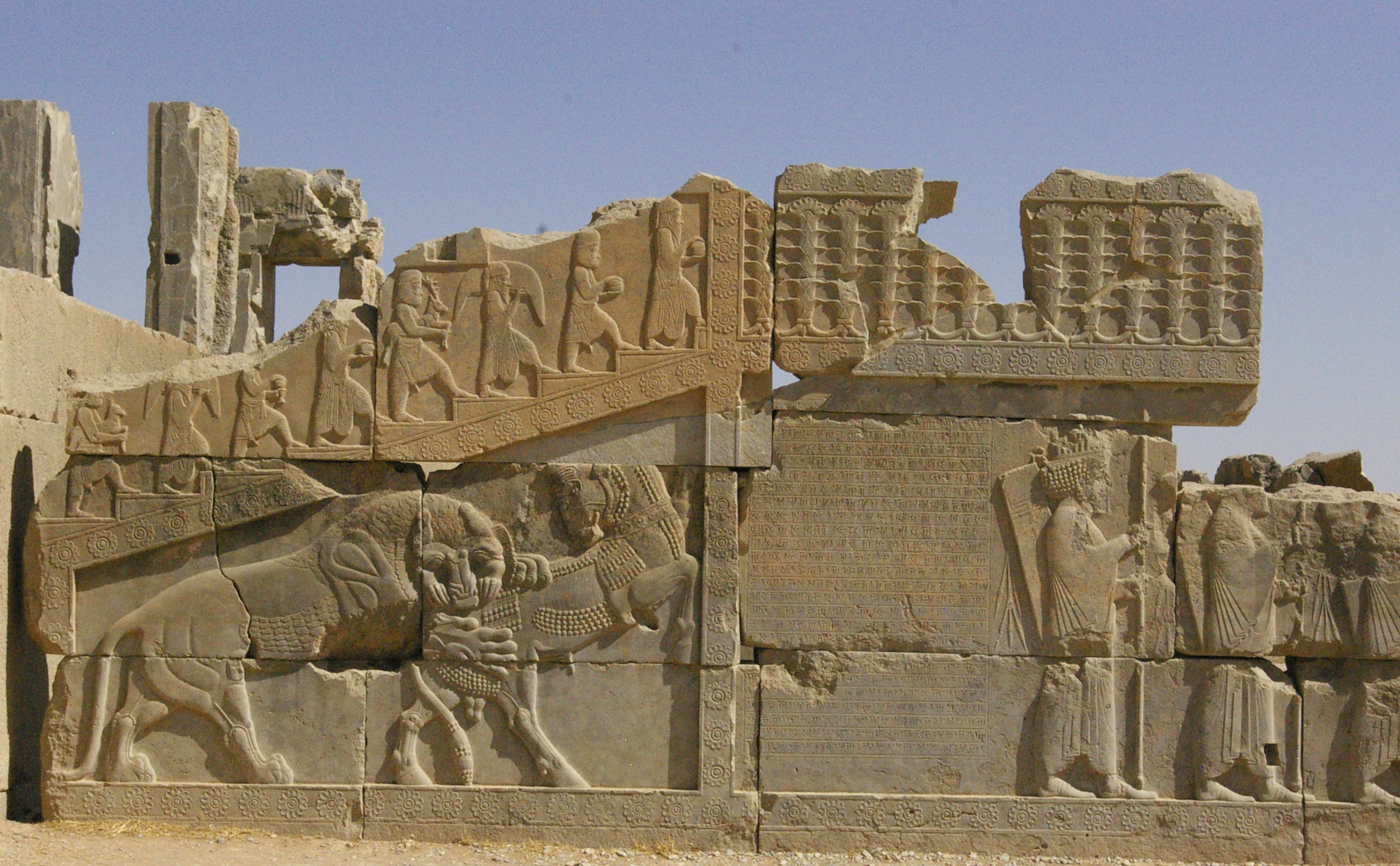 view of ruined Persepolis